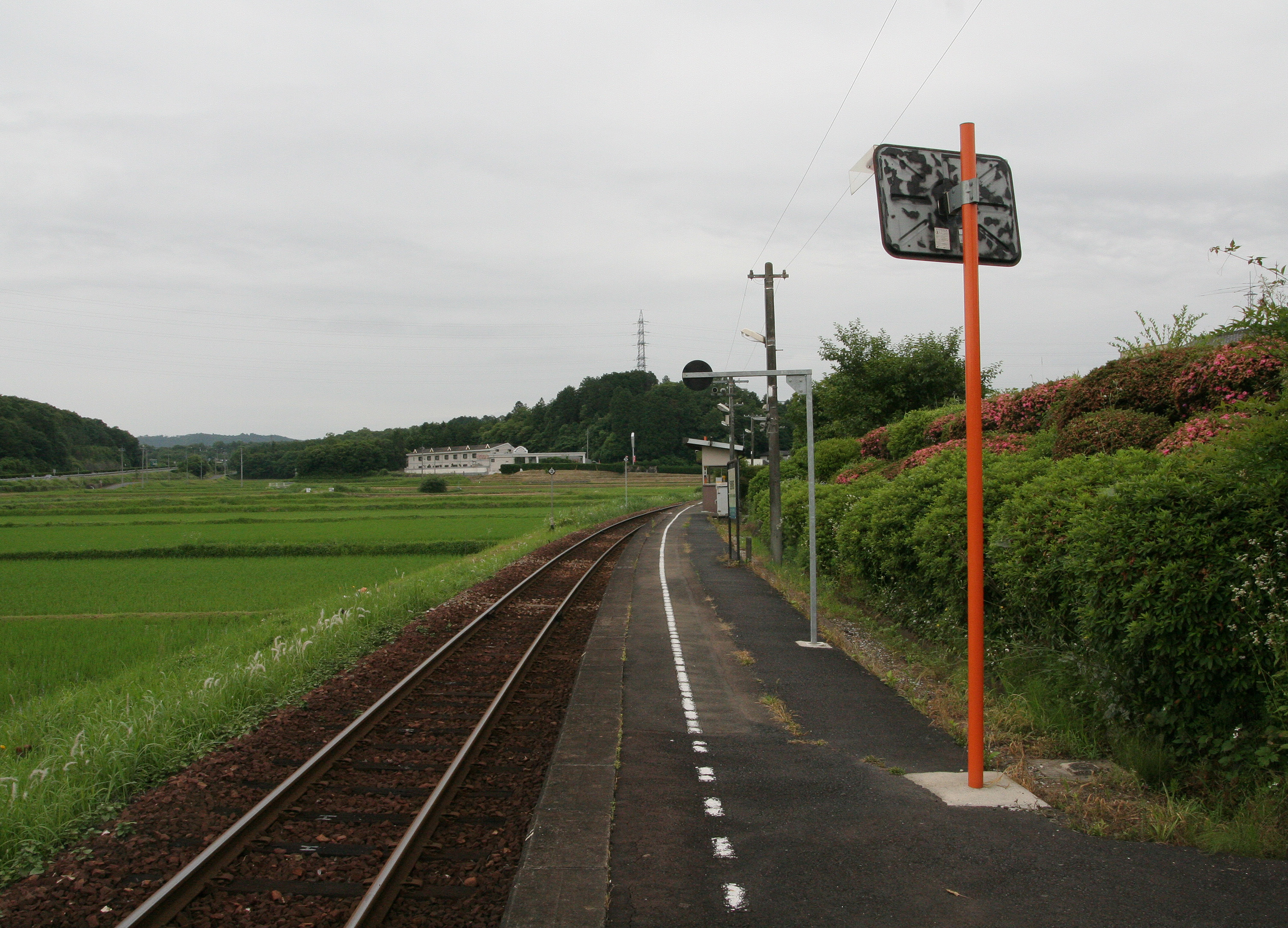 West Japan Railway Company Kishin Line nishi katsumada sta enclosure